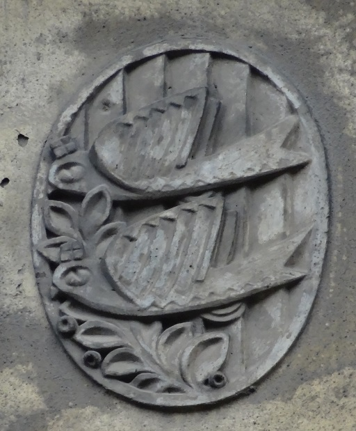 37 Népszínház Street – swallows on the façade in 2017